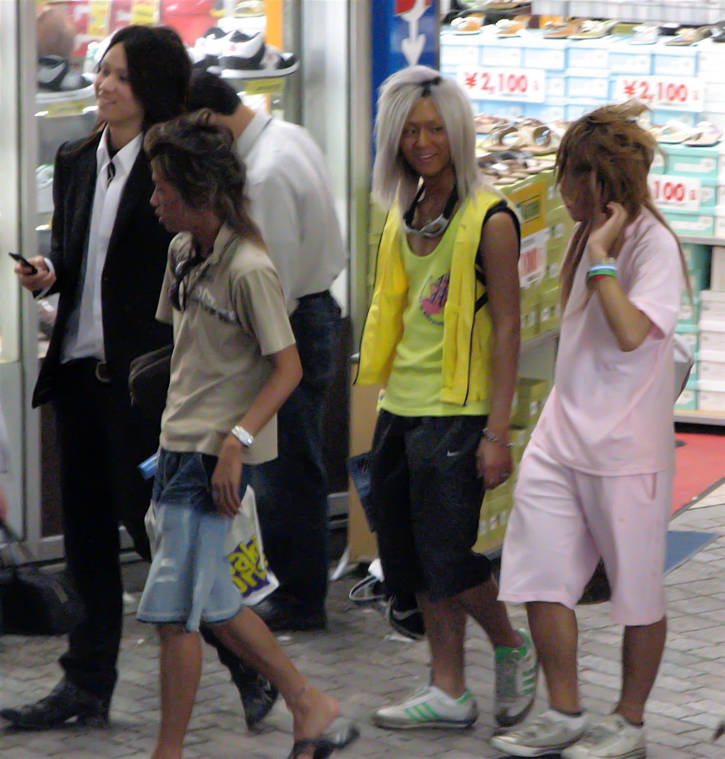 gyaru-o guys